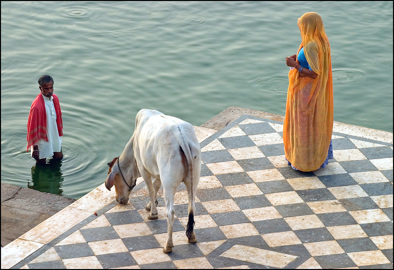 I already posted this image from the Ghats in Pushkar, in black and white though. I like to use the black and white as a screen for my powerbook.. Couldn't resit but post the colored version.